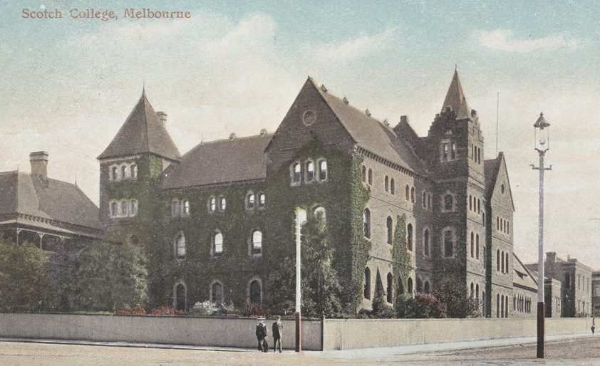 Postcard picture of Scotch College Melbourne at its East Melbourne site, prior to its move to its current site in Hawthorn